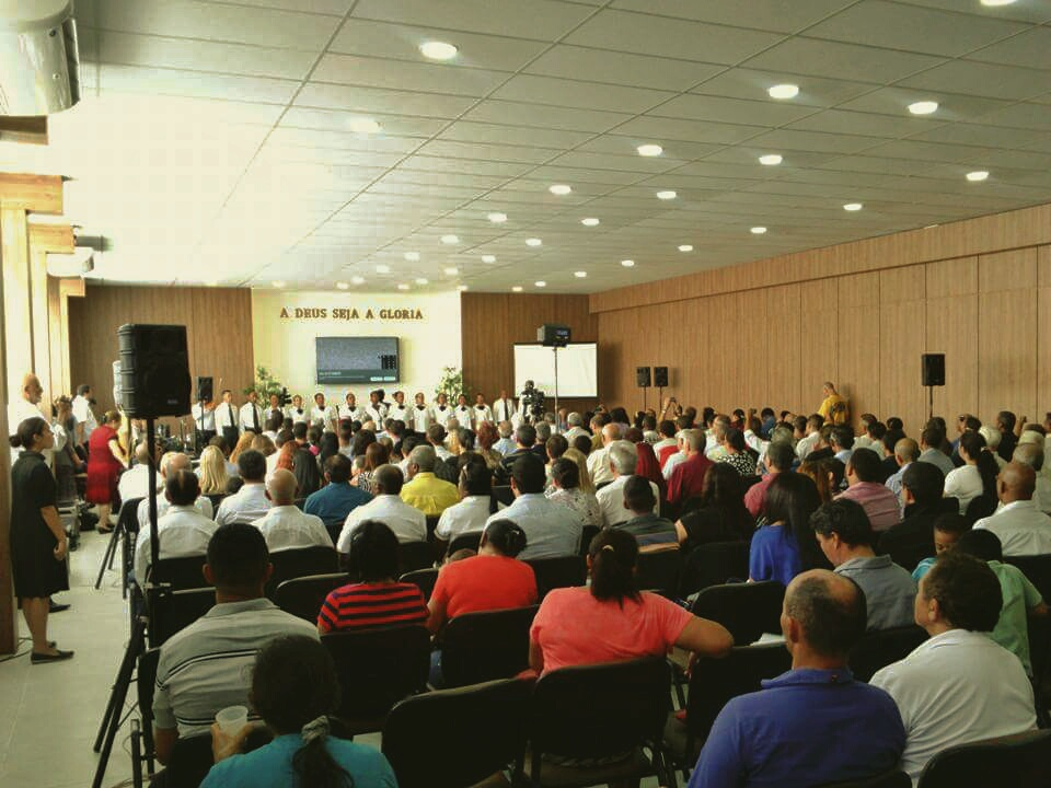 Worship at MCGI locale in Sao Paolo, Brazil